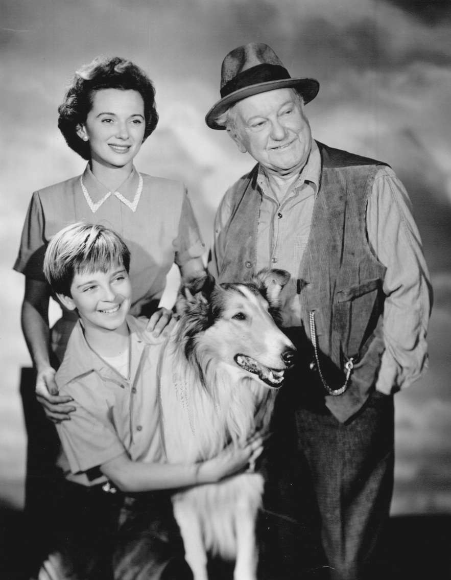 Photo of the 1955 cast of the television program Lassie. Standing:Jan Clayton and George Cleveland. Sitting: Tommy Rettig and Lassie.